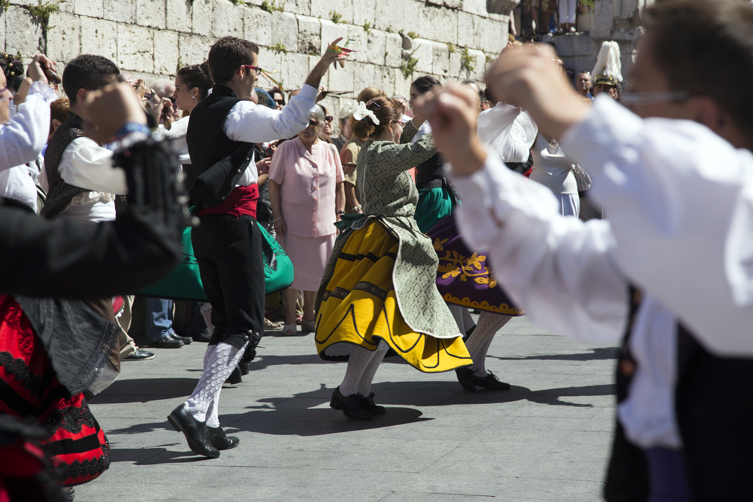 People dancing a Castilian jota in Valladolid Cathedral, Spain.